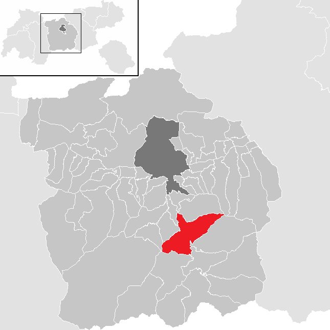 District Innsbruck Land